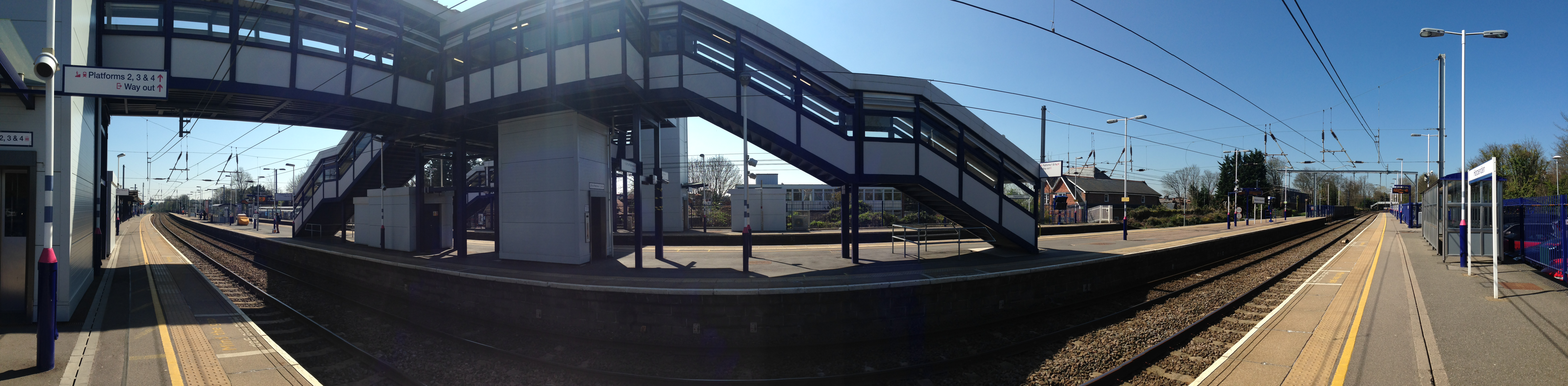 Harpenden Train Station Panorama